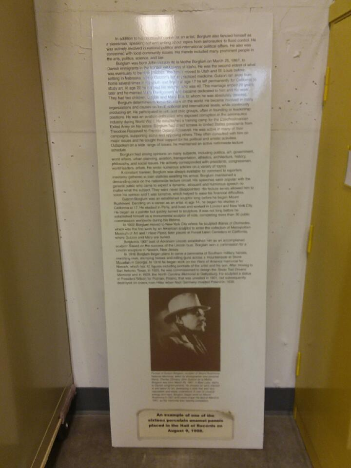 16 enamel panels were entombed in the Hall of Records behind Lincoln's head at Mt Rushmore. The panels had text and photos on them describing Mt Rushmore, how it was sculpted, the biography of the sculptor, short biographies of each of the presidents, and text of important US documents like the Declaration of Independence and the Constitution. This is a copy of one of those panels. It is NOT a picture of one of the actual panels entombed. It is printed on metal and measures the same as the enamel panels - 4 feet by 1.5 feet. This photo was taken in Februaru of 2019 by Ed Menard, a park service employee at Mt Rushmore in South Dakota, United States.